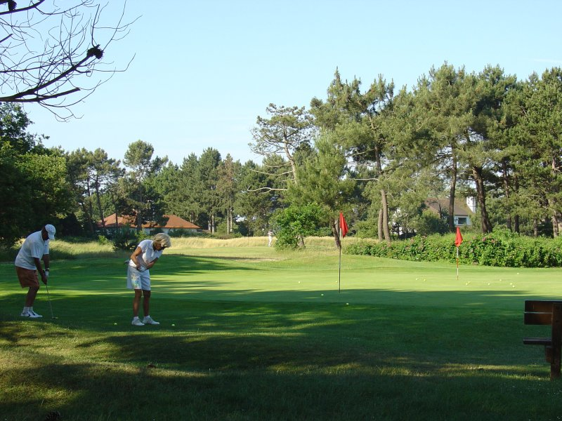 Chipping green